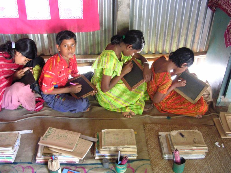 Children sitting on mats, writing on small blackboards, in a classroom in the countryside of Bangladesh.